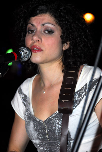 Carrie Rodriguez in concert at SXSW 2007 in Austin, Texas USA on March 13, 2007.